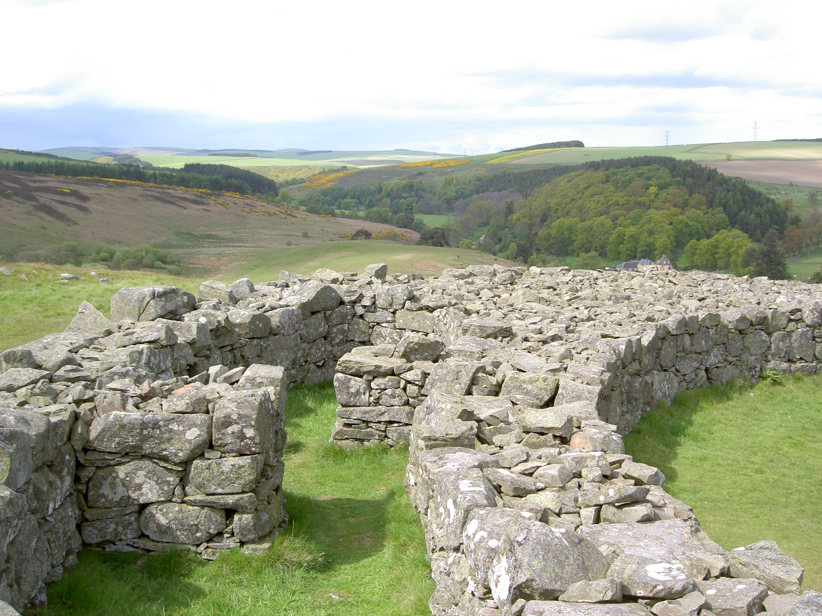 Edin's Hall Broch 5th June 2005 Brendan Douglas-Hamilton